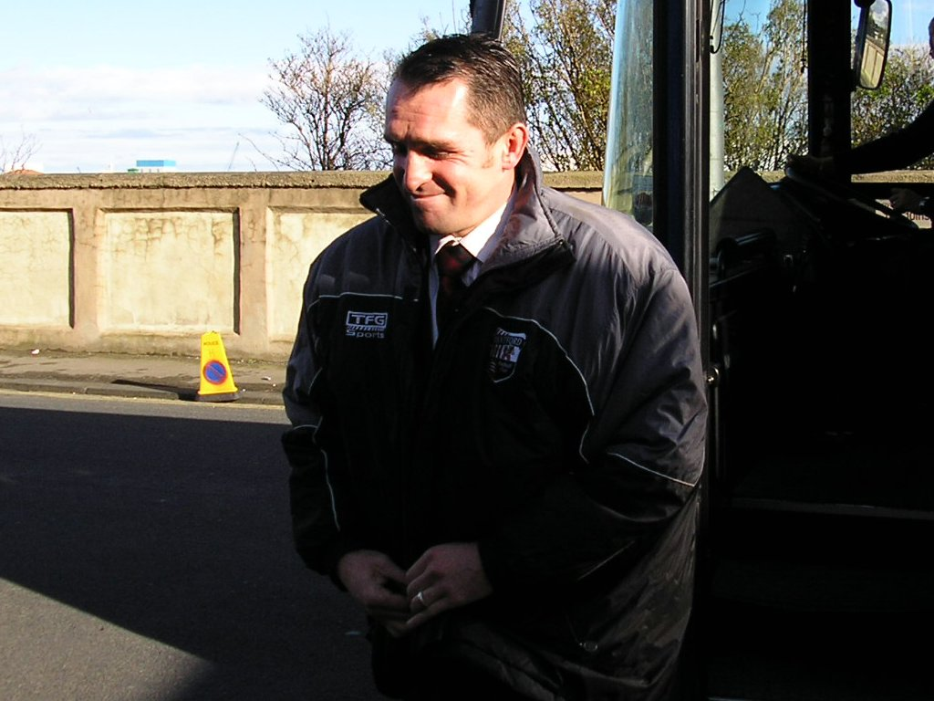 Martin Allen exiting the Brentford team bus.